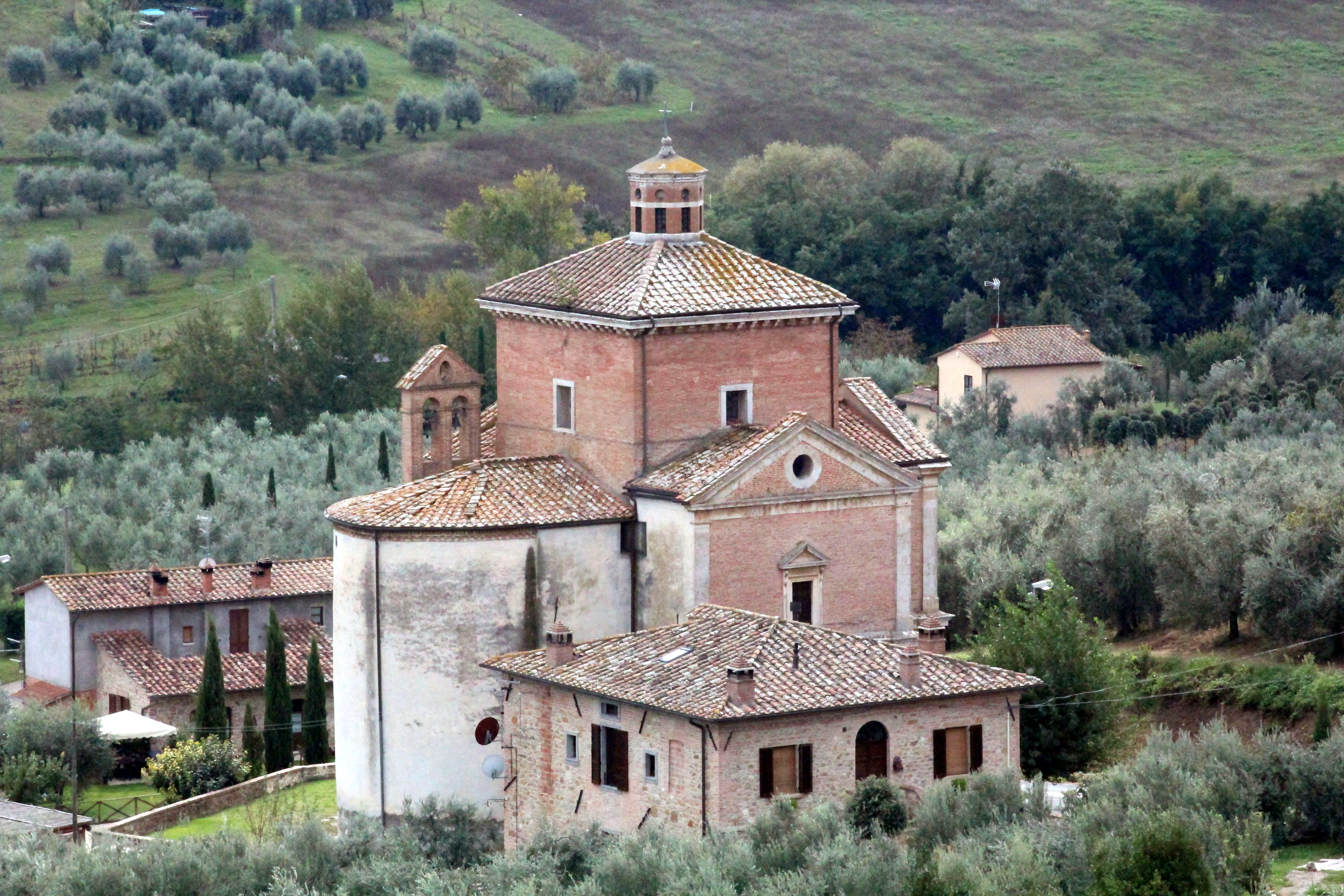 Panorama of the Church Chiesa della Madonna della Rosa, Chianciano (Chianciano Terme), outside the walls, Province of Siena, Tuscany, Italy.